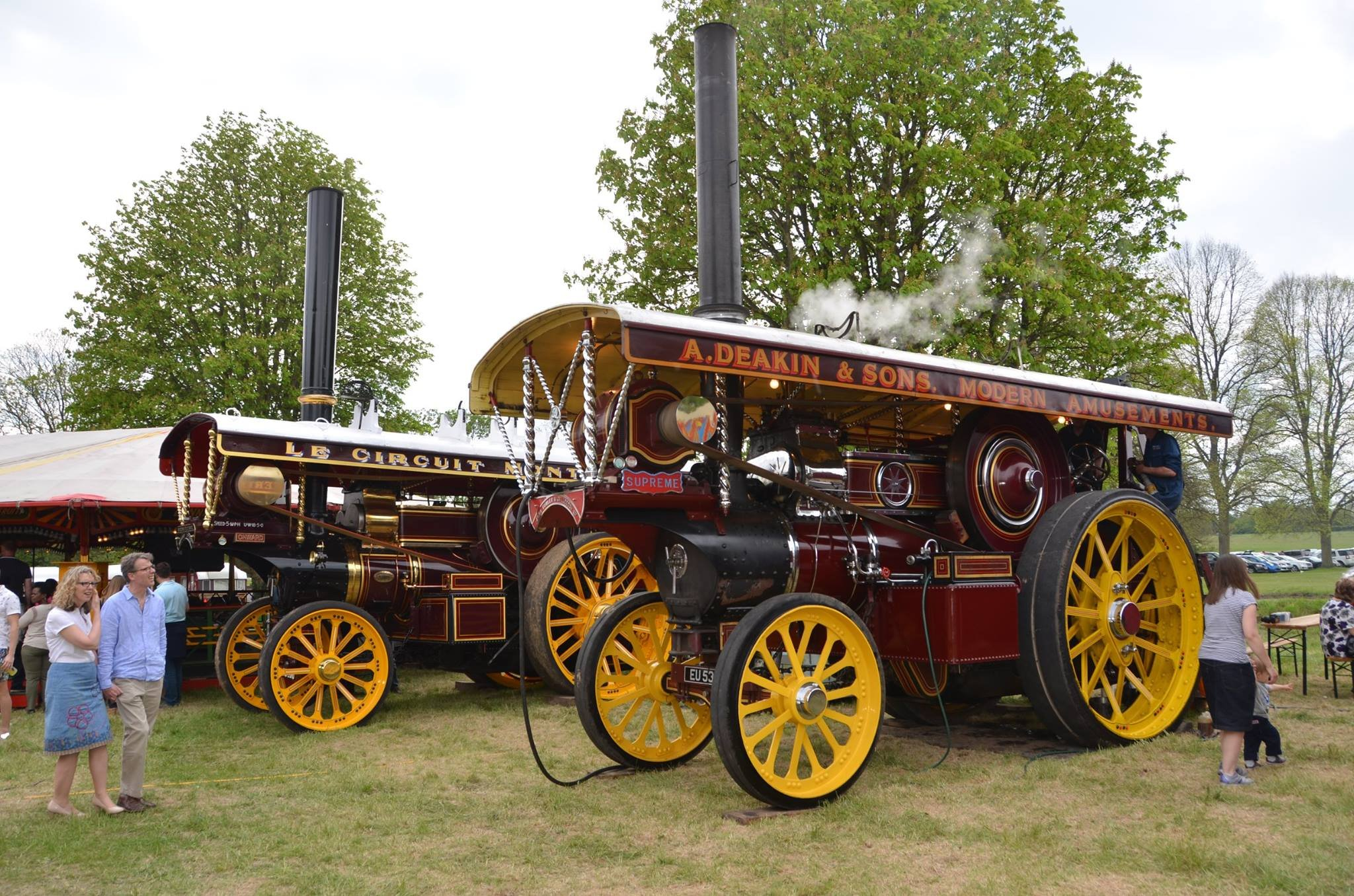 The last built of the Fowler showman's engines, no 21223 Supreme (in the foreground), and next to it the recreation of its sister engine, no 19989 Onward, at its first show in May 2016 (Carter's Steam Fair, Pinkneys Green), 70 years after the original Onward was scrapped.